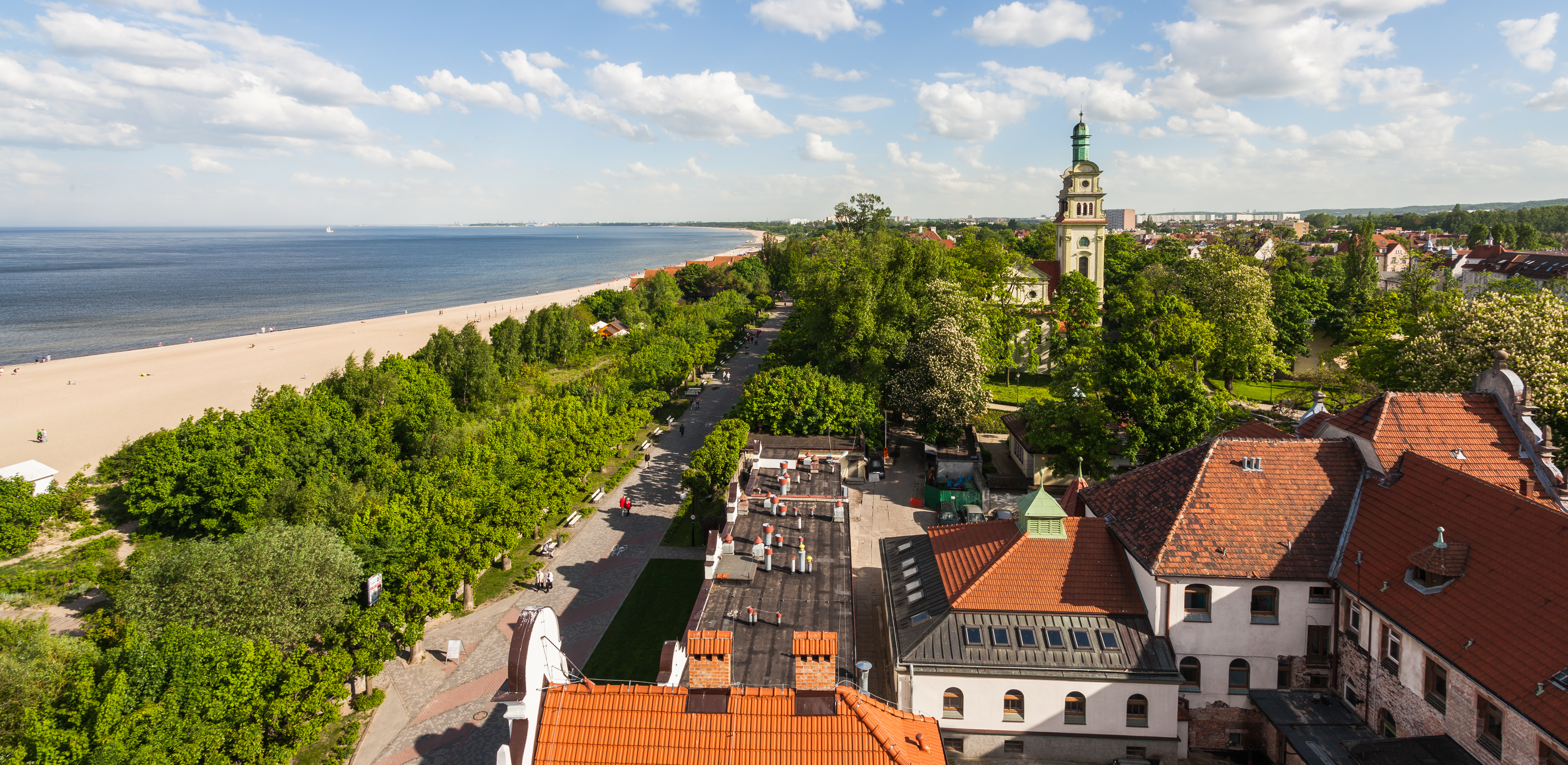 Lutheran church, Sopot, Poland